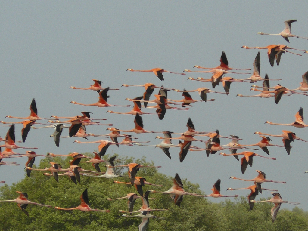 American Flamingos in La Guajira, Colombia.